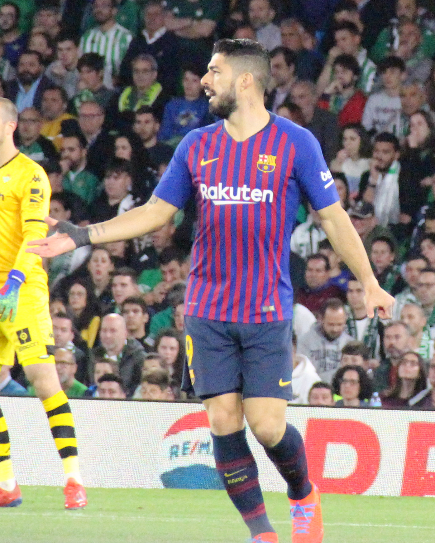 Luis Suarez playing for FC Barcelona vs Real Betis, 17/03/2019